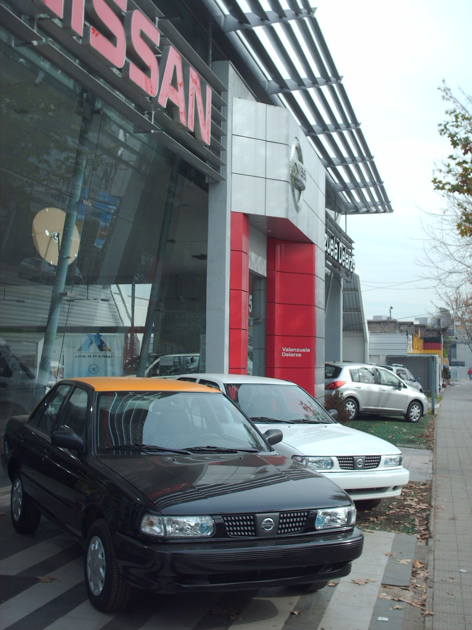 Brand new Nissan V16 in Taxi colours from a dealership in Santiago, Chile.